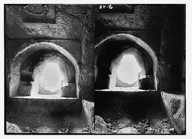 Valleys of Jehoshaphat and Hinnom [Jerusalem]. Loculi in Absalom's pillar.